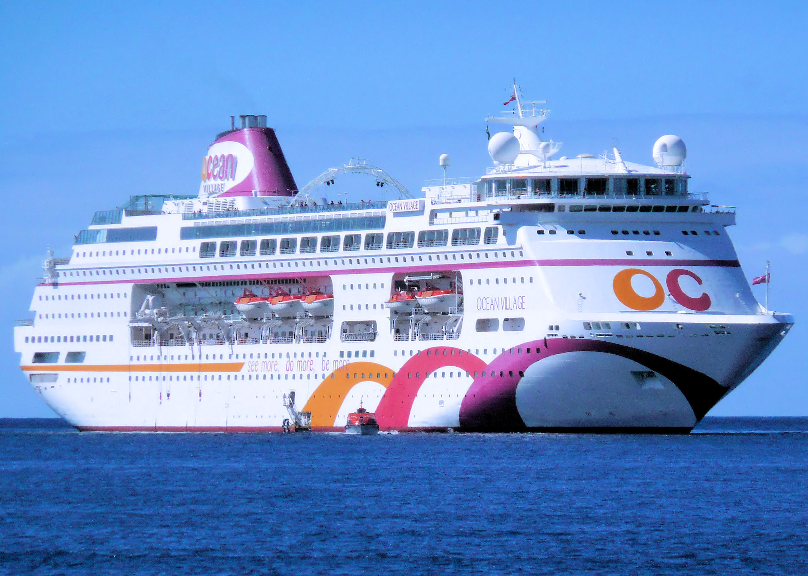 Original Ocean Village at anchor in Dominica, Caribbean - 31st December 2008